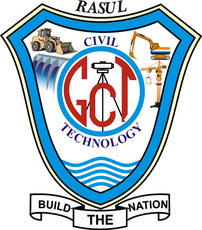 Government College of Technology Rasul